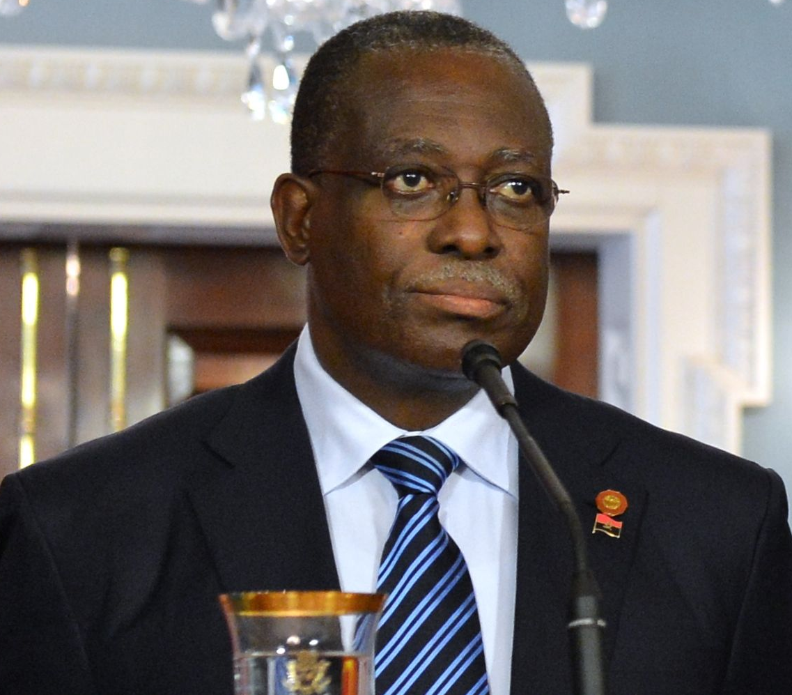 Manuel Vicente